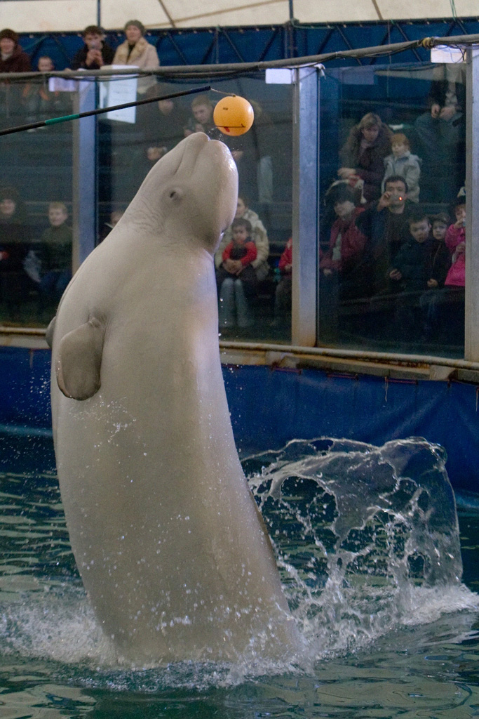 “White whales performing at the Moscow Zoo dolphinarium”. White [Beluha] whales performing at the Moscow Zoo dolphinarium.